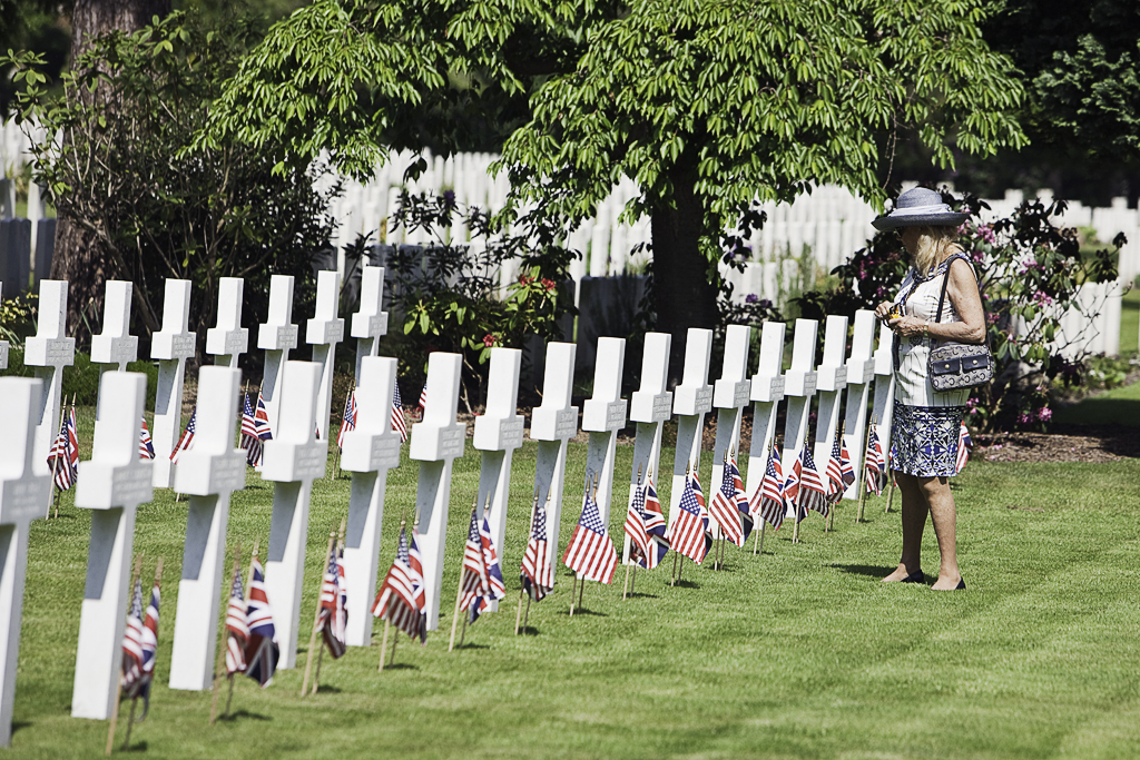 ABMC Brookwood Military Cemetery - Observance 2009